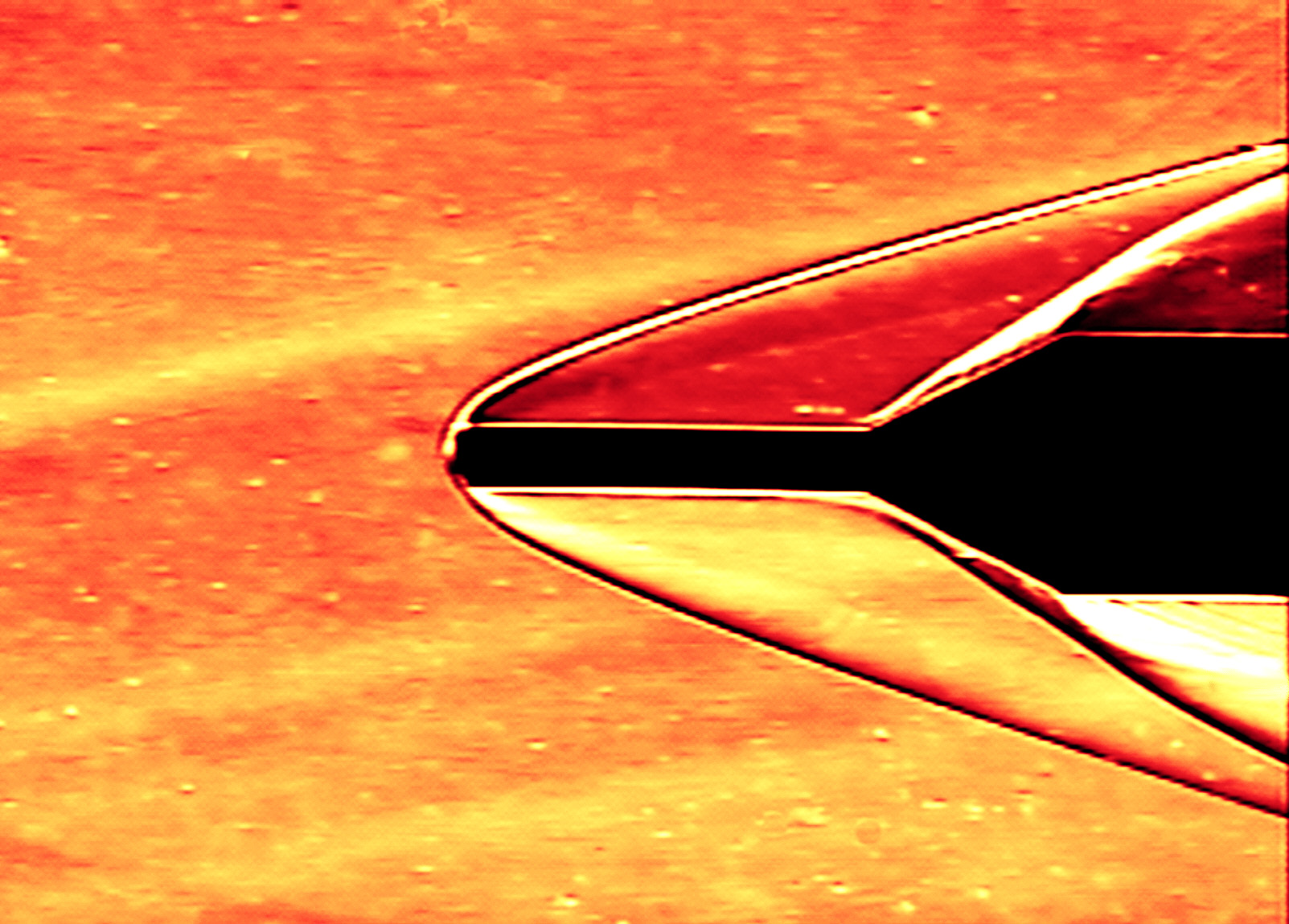 Schlieren image of airflow at Mach 4 over a pitot tube mounted in the Penn State Supersonic Wind Tunnel